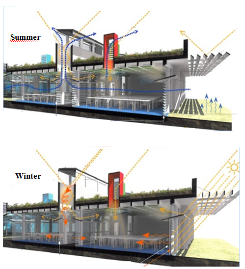 Principles of passive design in summer and in winter